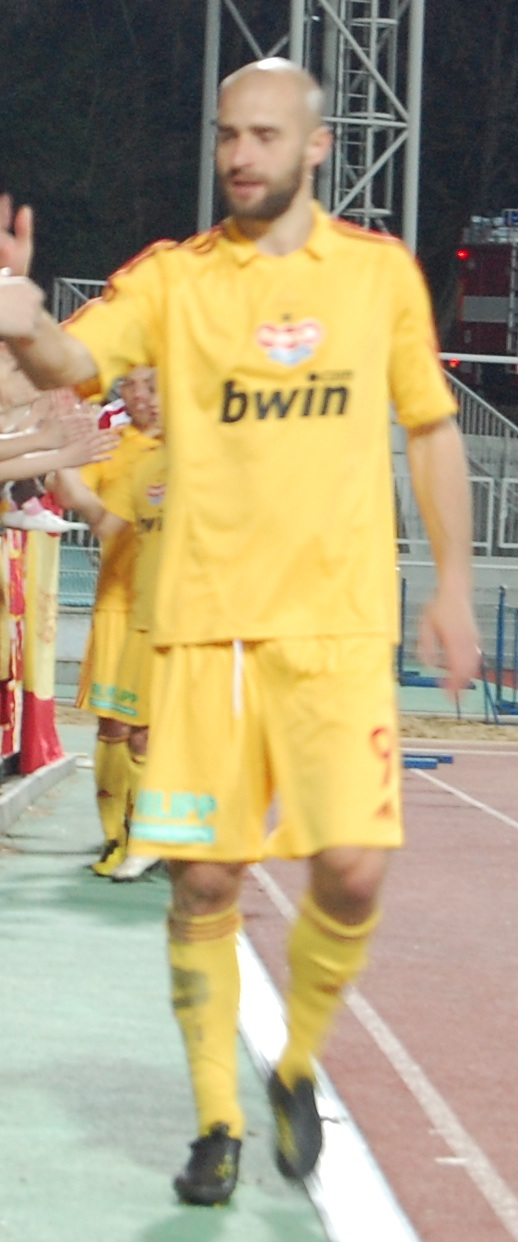 Jan Vorel of FK Dukla Praha (Dukla Prague) after the match against FK Viktoria Žižkov